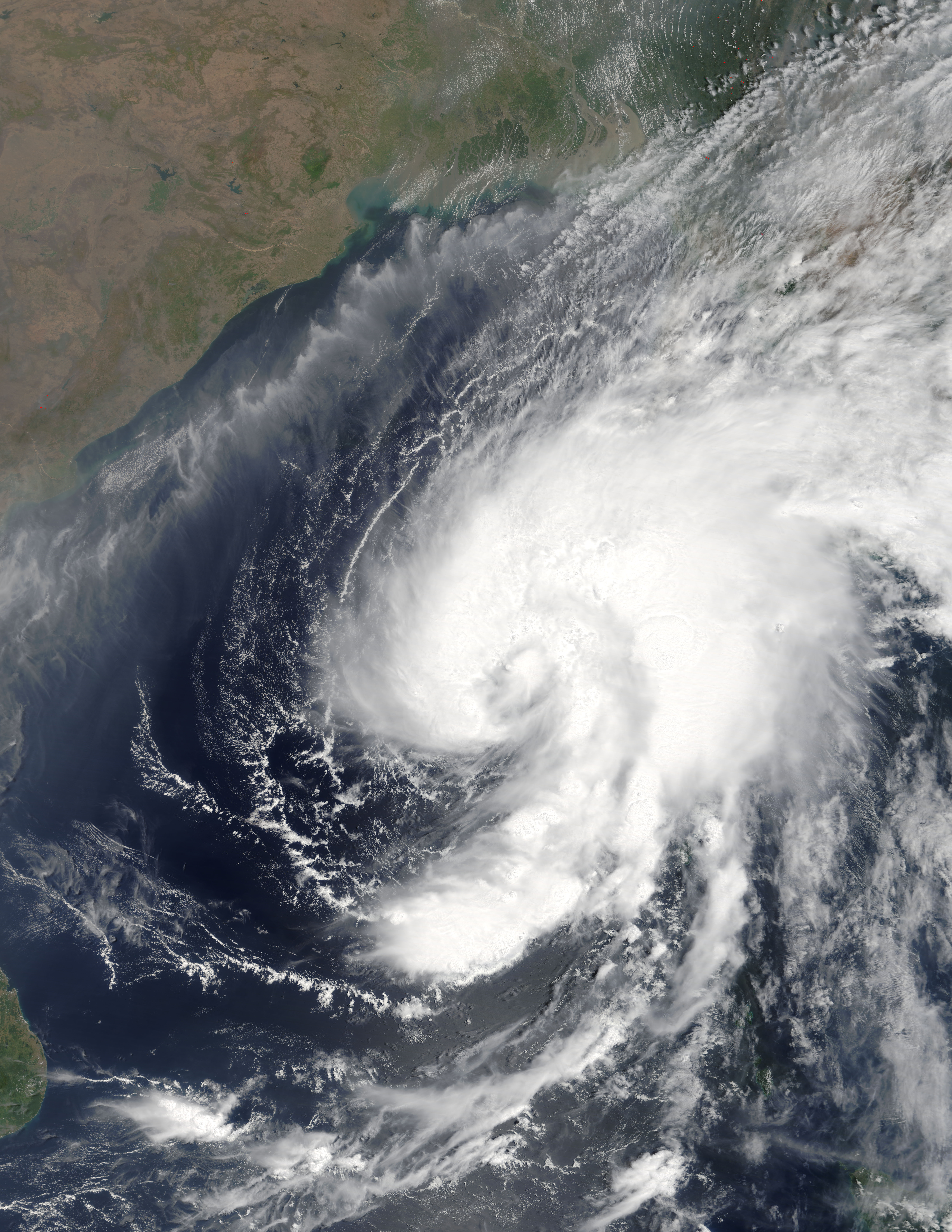 Tropical Cyclone Maarutha (01B) in the Bay of Bengal